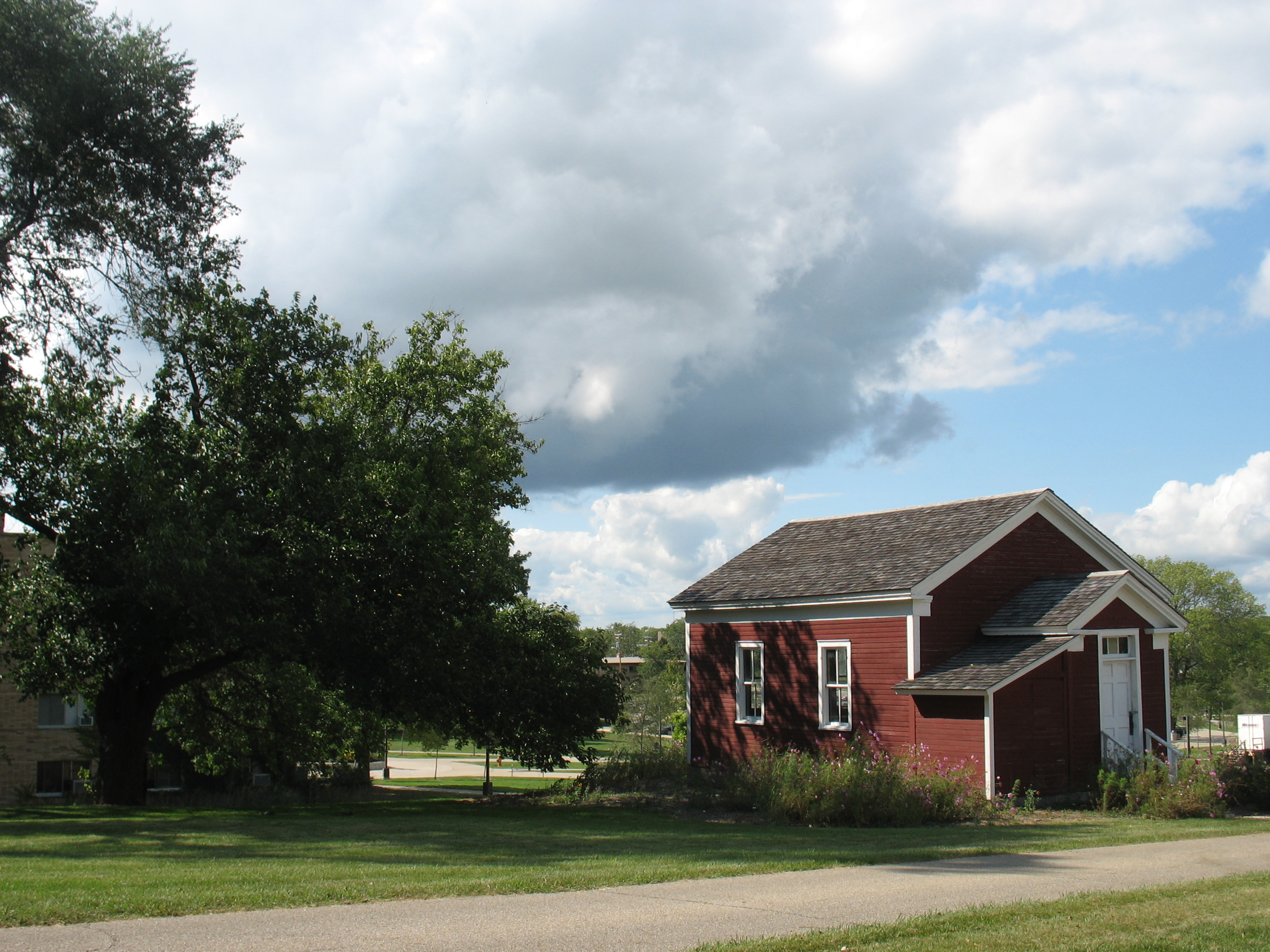 Granville Schoolhouse on the campus of the University of Wisconsin-Whitewater